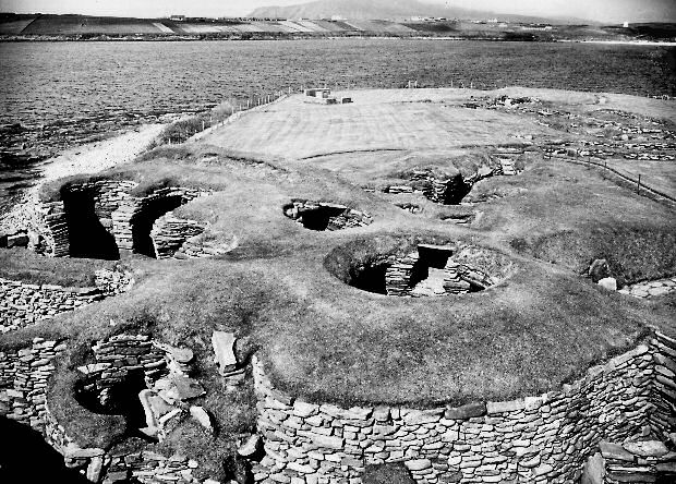 Three of four wheelhouses at the Jarlshof site, Mainland, Shetland